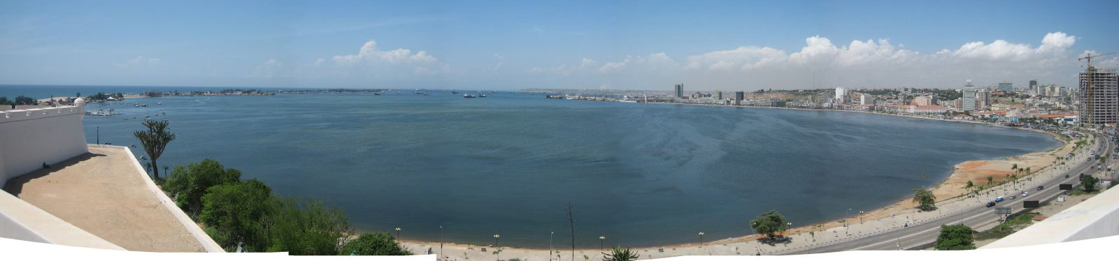 Luanda